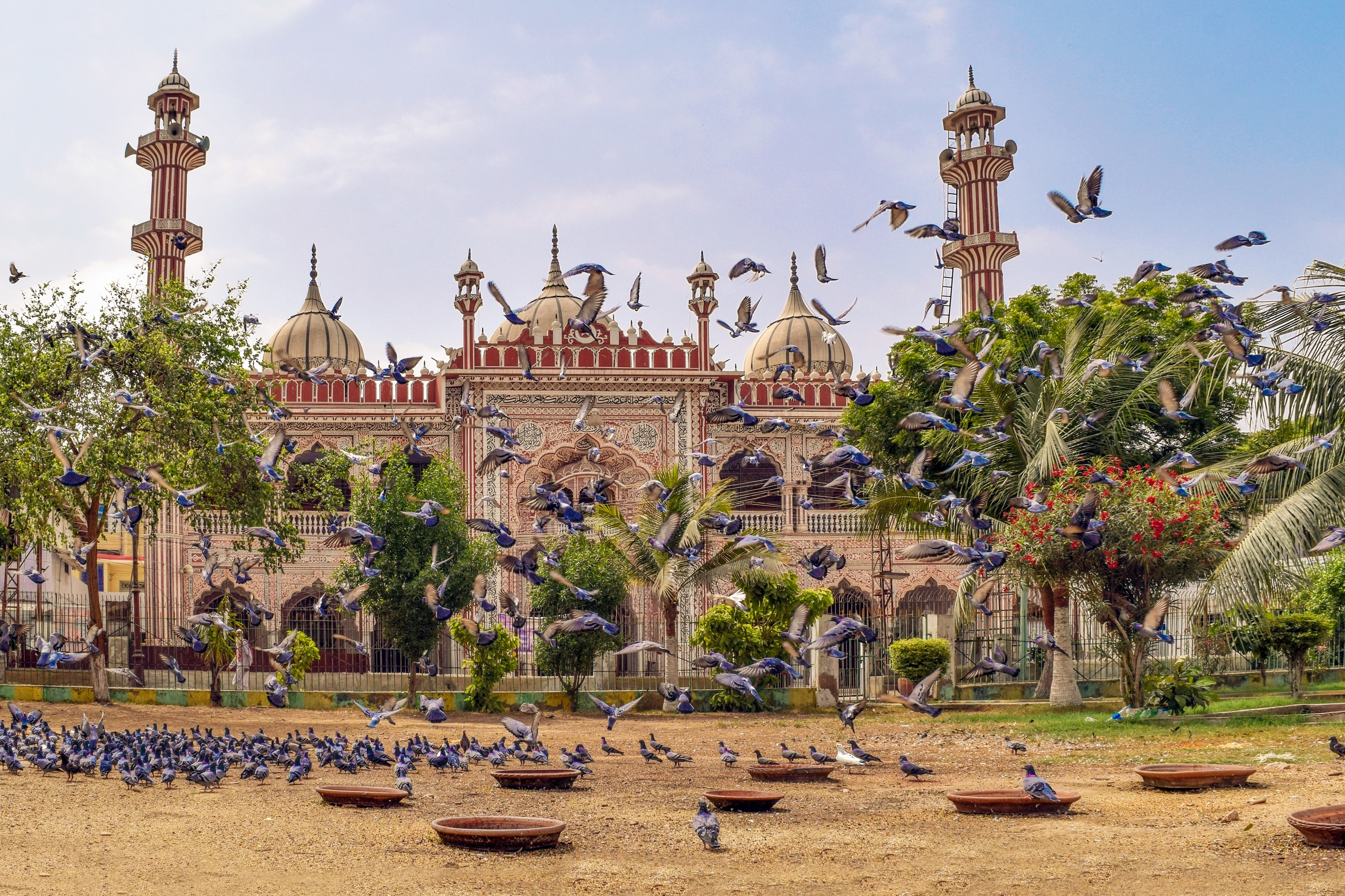 Aram Bagh Masjid, Karachi This is a photo of a monument in Pakistan identified as the 2